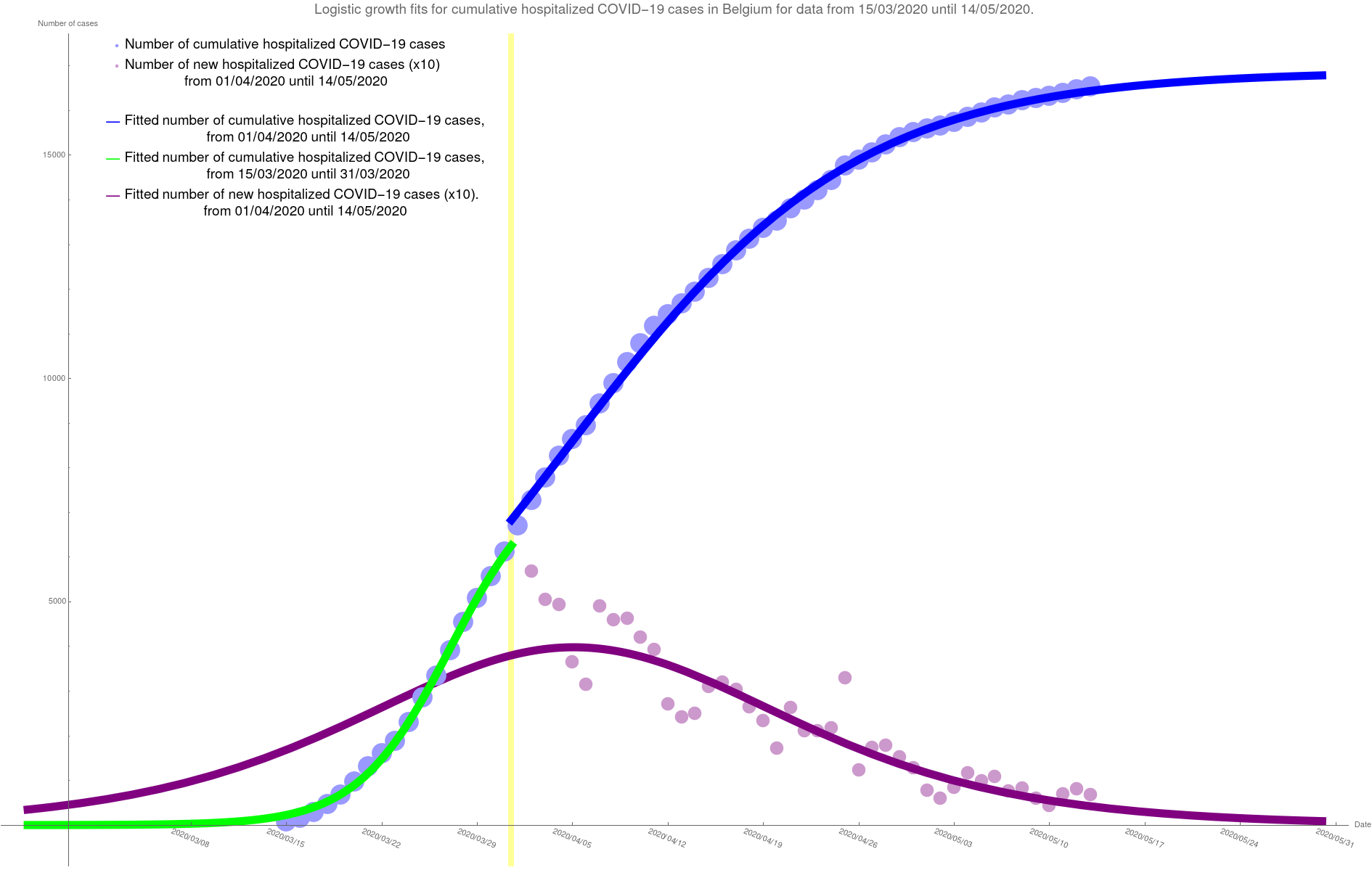 Logistic growth model fits for hospitalised COVID-19 cases in Belgium for data from 15/03/2020 until 14/05/2020. We can make out two phases separated by the yellow vertical line. One from 15/03/2020 until 31/03/2020 (with a fit in green) and the one from 01/04/2020 until 14/05/2020 (with a fit in blue). The initial phase (green) had exponential growth/decline rate of 29.3% and the total number of cumulated hospitalised cases stabilises at 7948. The second phase (blue) has exponential growth/decline rate of 9.44% and the total number of cumulated hospitalised cases stabilises at 16878. Also shown in purple is the fitted new hospitalisations from 01/04/2020 until 14/05/2020 (corresponding to the blue fit for cumulative data). Beyond the 14th of May the curves shown are only a trend according to the logistic growth model, these have an uncertainty range associated to them and should not be seen as a prediction.